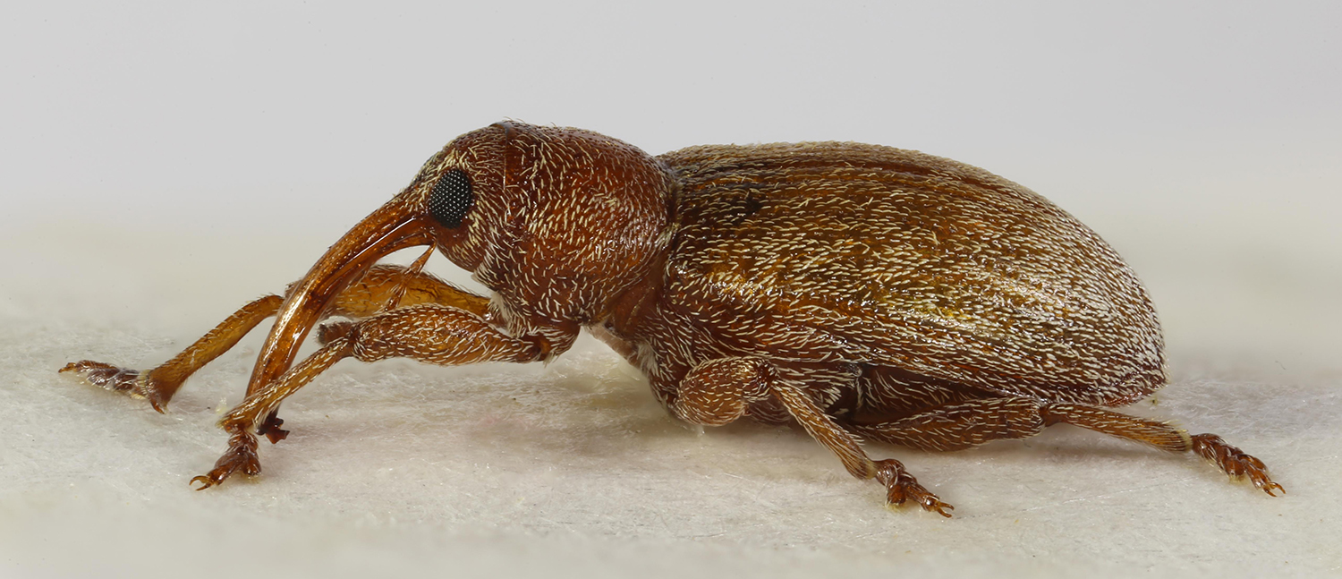 Dorytomus melanophthalmus, Gronant dunes, North Wales, Sept 2015